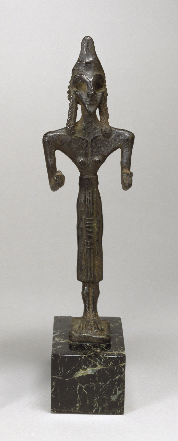 This solid cast bronze figurine served as votive offering and is surely Anat, a fertility goddess who is the sister and consort of Baal.